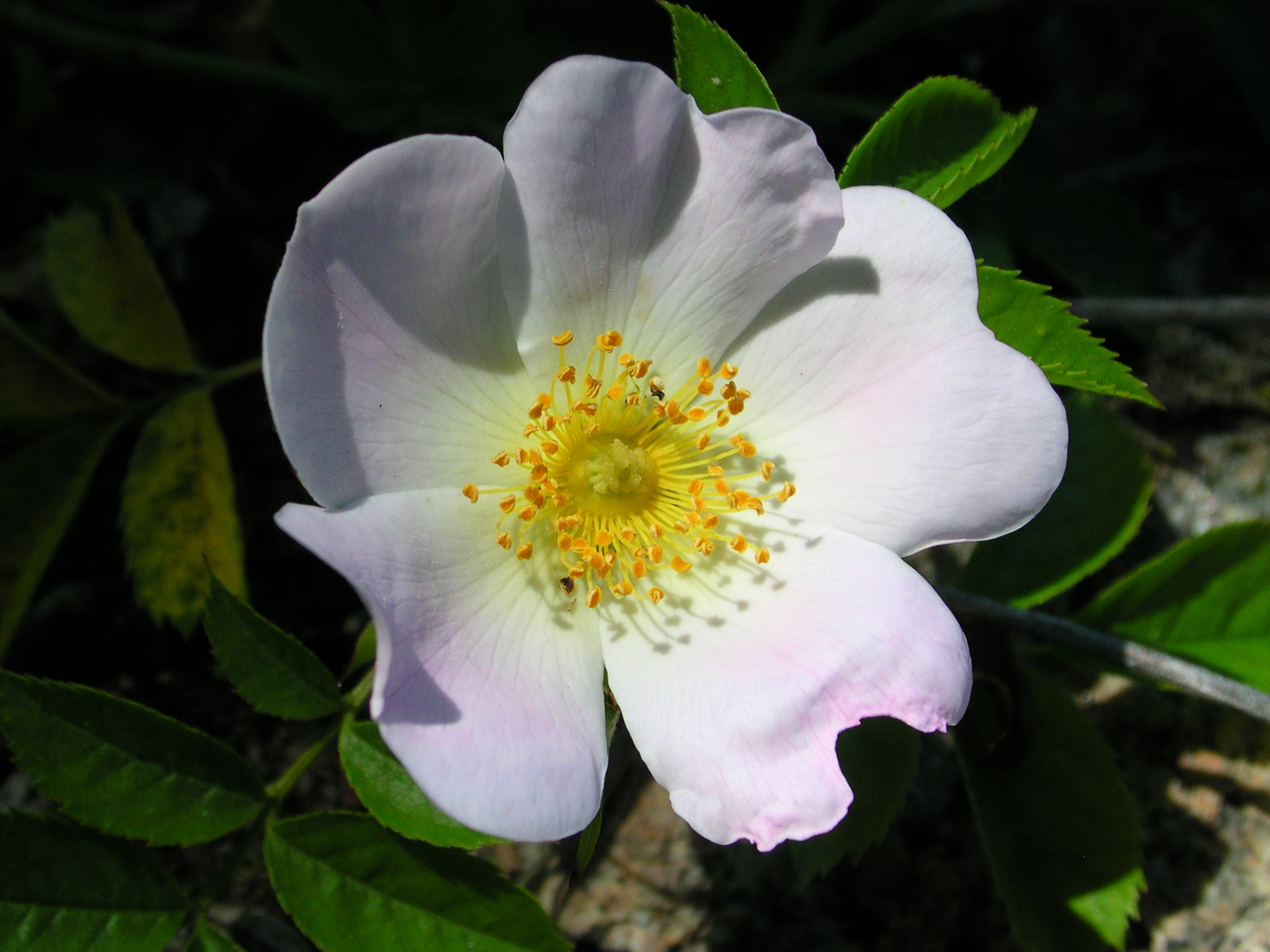 Rosa canina or Dog Rose